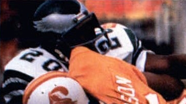 Philadelphia Eagles' running back Leroy Harris rushing the ball against the Tampa Bay Bucaneers during the 1979 NFC Divisional Playoff Game on December 29, 1979.